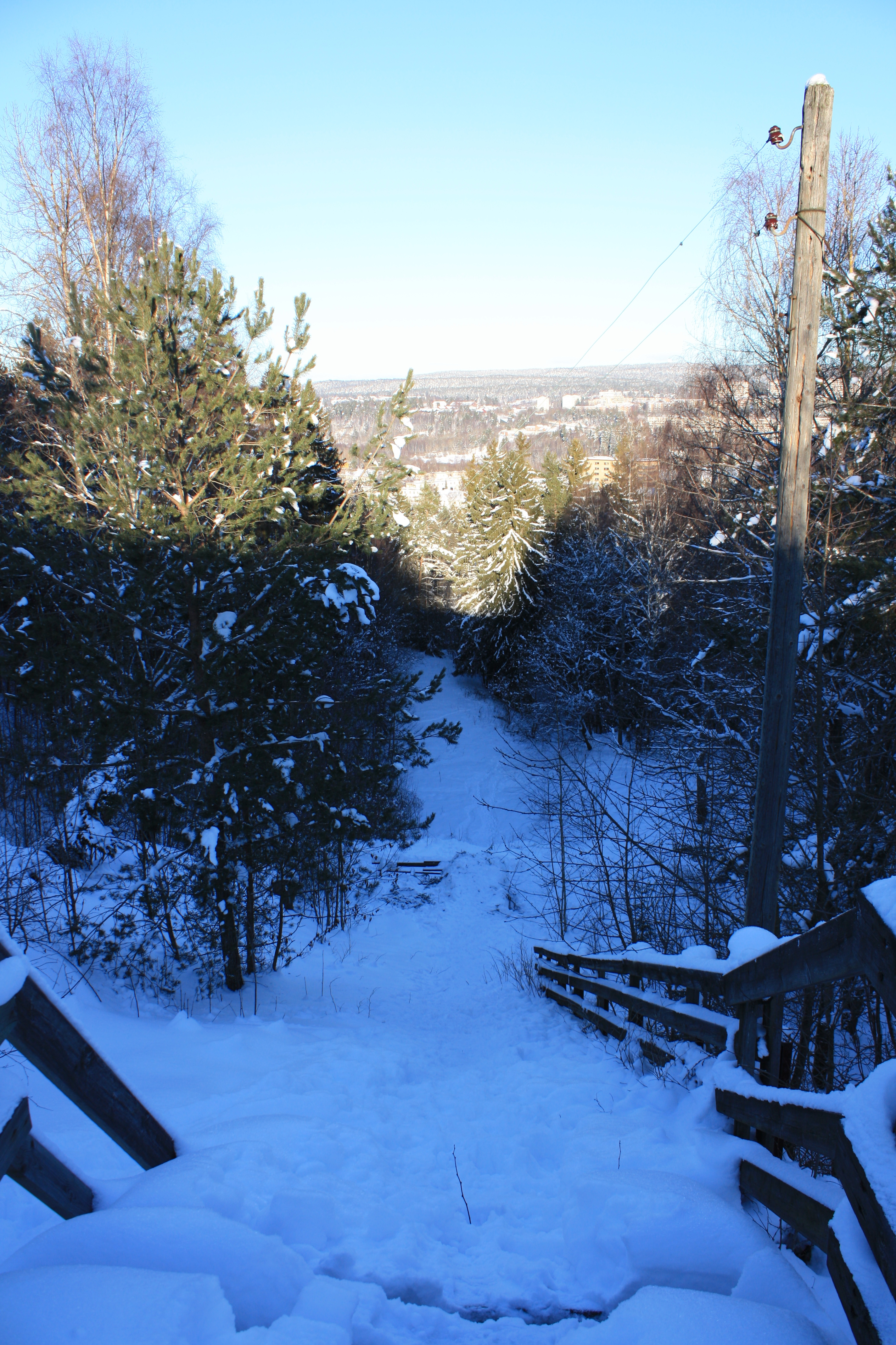 Image of Eker'n